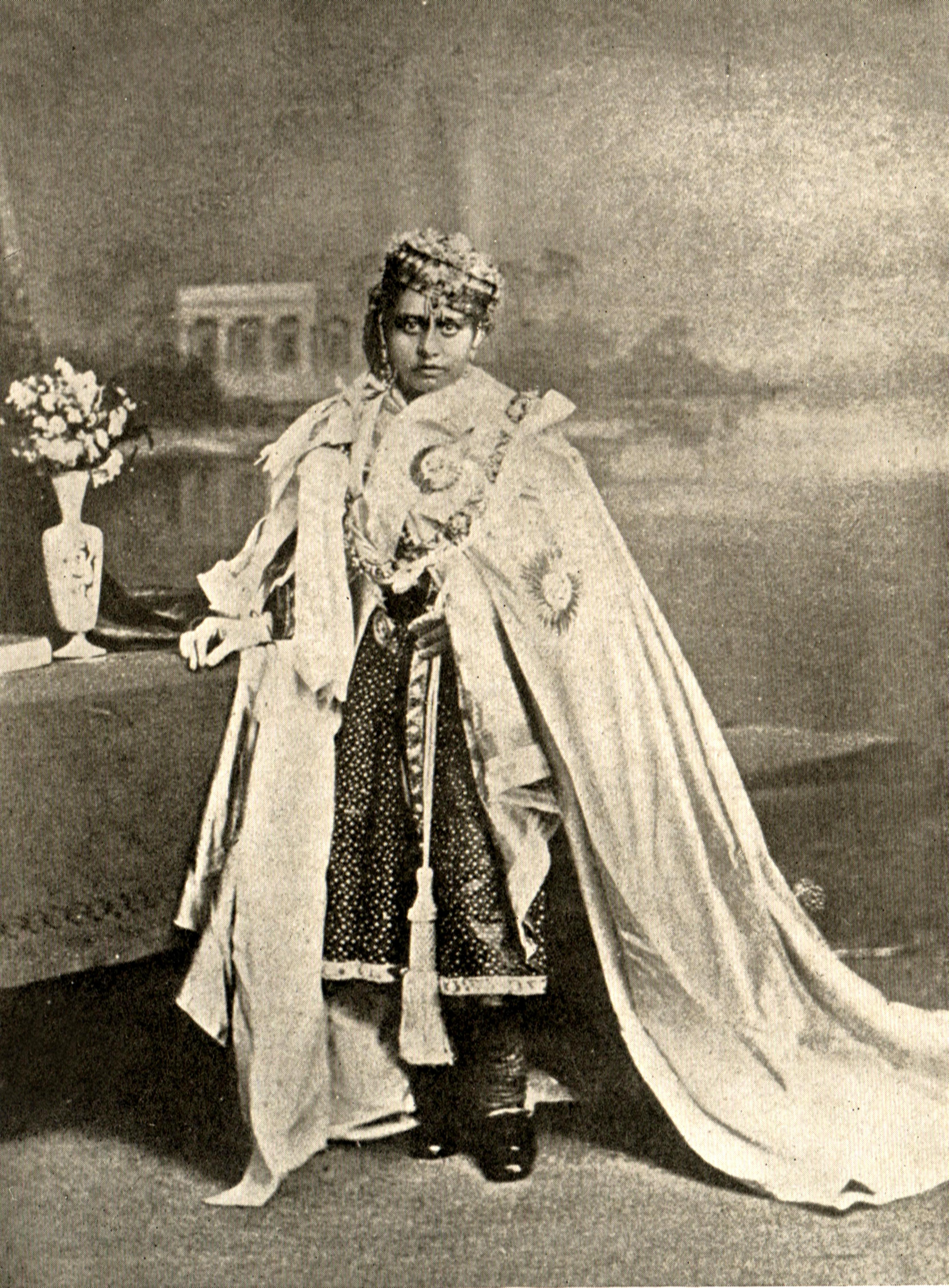 Shahjahan begum